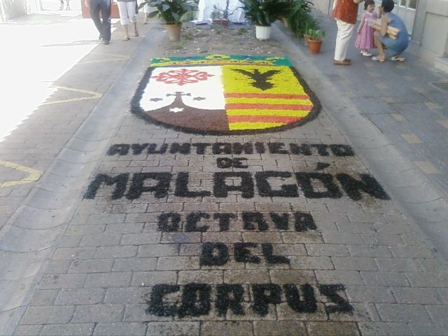 Corpus Christi Day's carpet, Malagón, Spain.